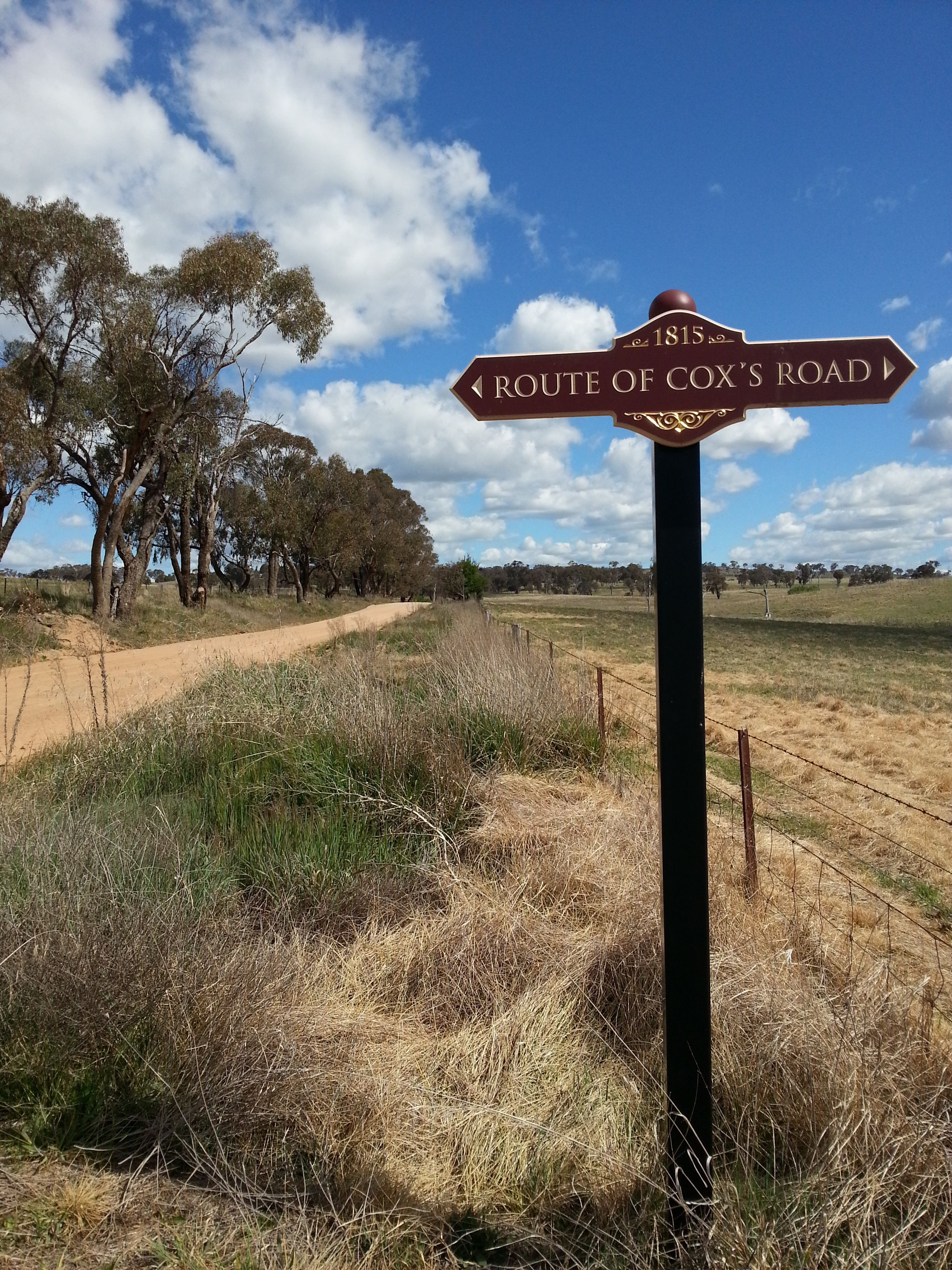 1815 'Route of Cox's Road' Sign - located south of Bathurst west of the village of O'Connell. The road was built by William Cox, soldiers and convicts, and completed in 1815, two years after the town of Bathurst was discovered. This road was built on the orders of Govenor of the Colony of New South Wales, Lachlan Macquarie, to open up the vast lands over the Blue Mountains west of Sydney.